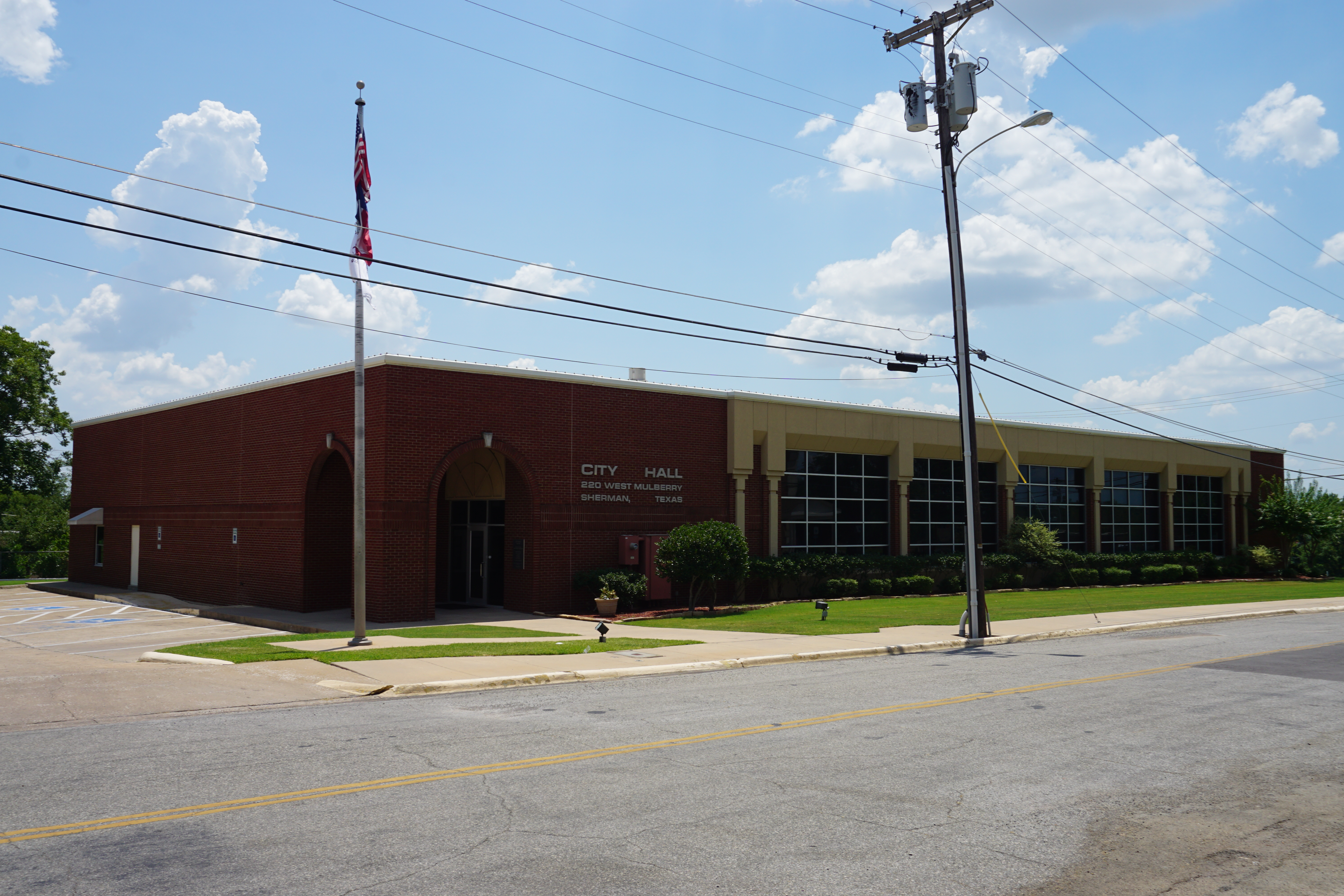 City Hall in Sherman, Texas (United States).